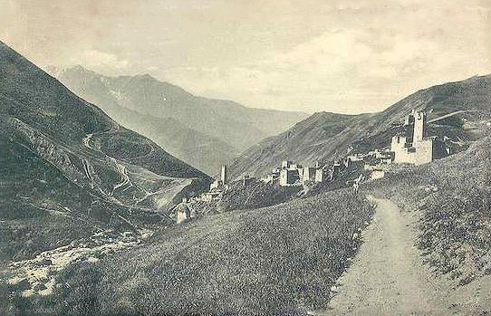 aul Tshore